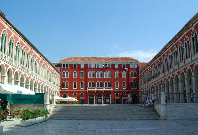 Trg Republike (Square of Republic) in Split, Croatia.